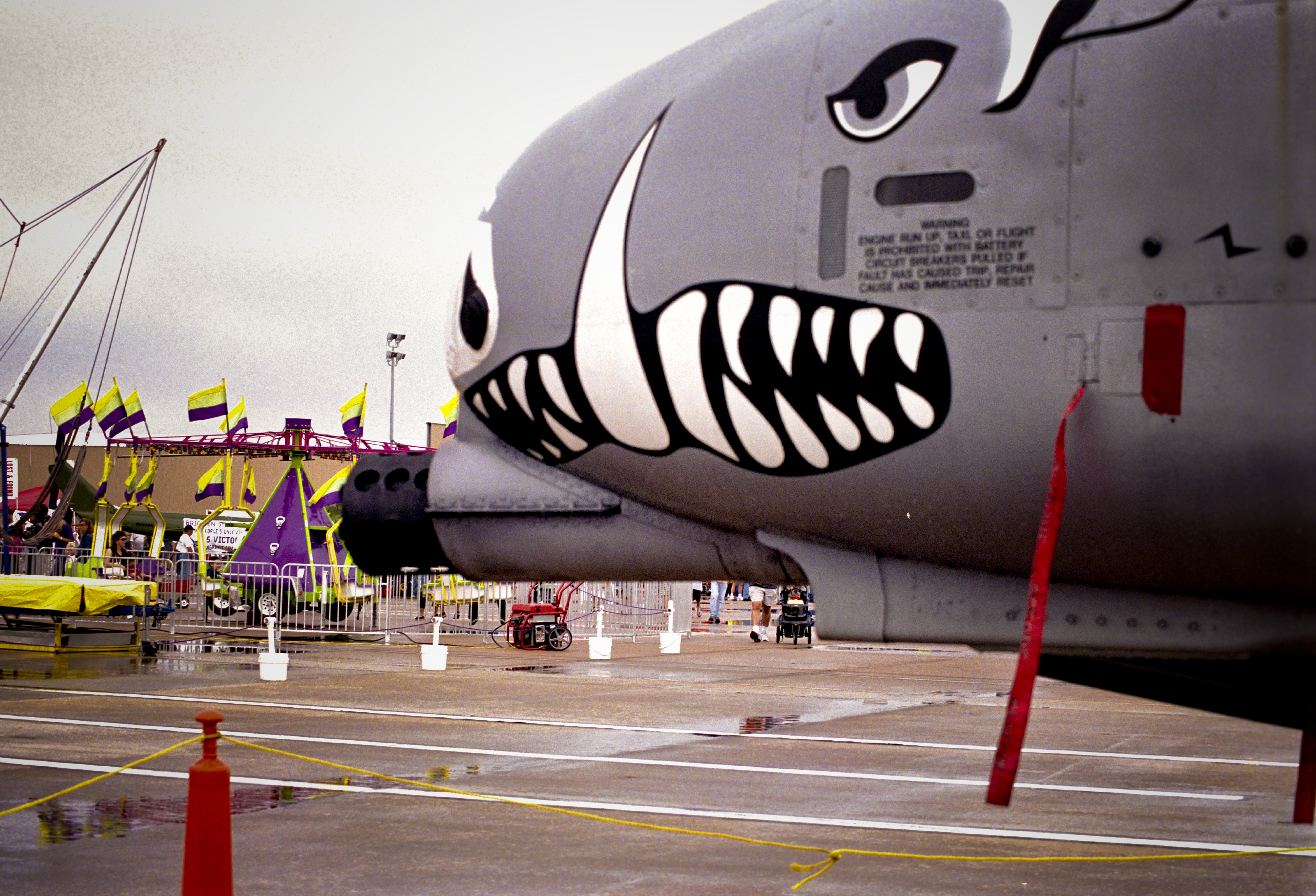 Gun and playground....2 things you see together everyday.